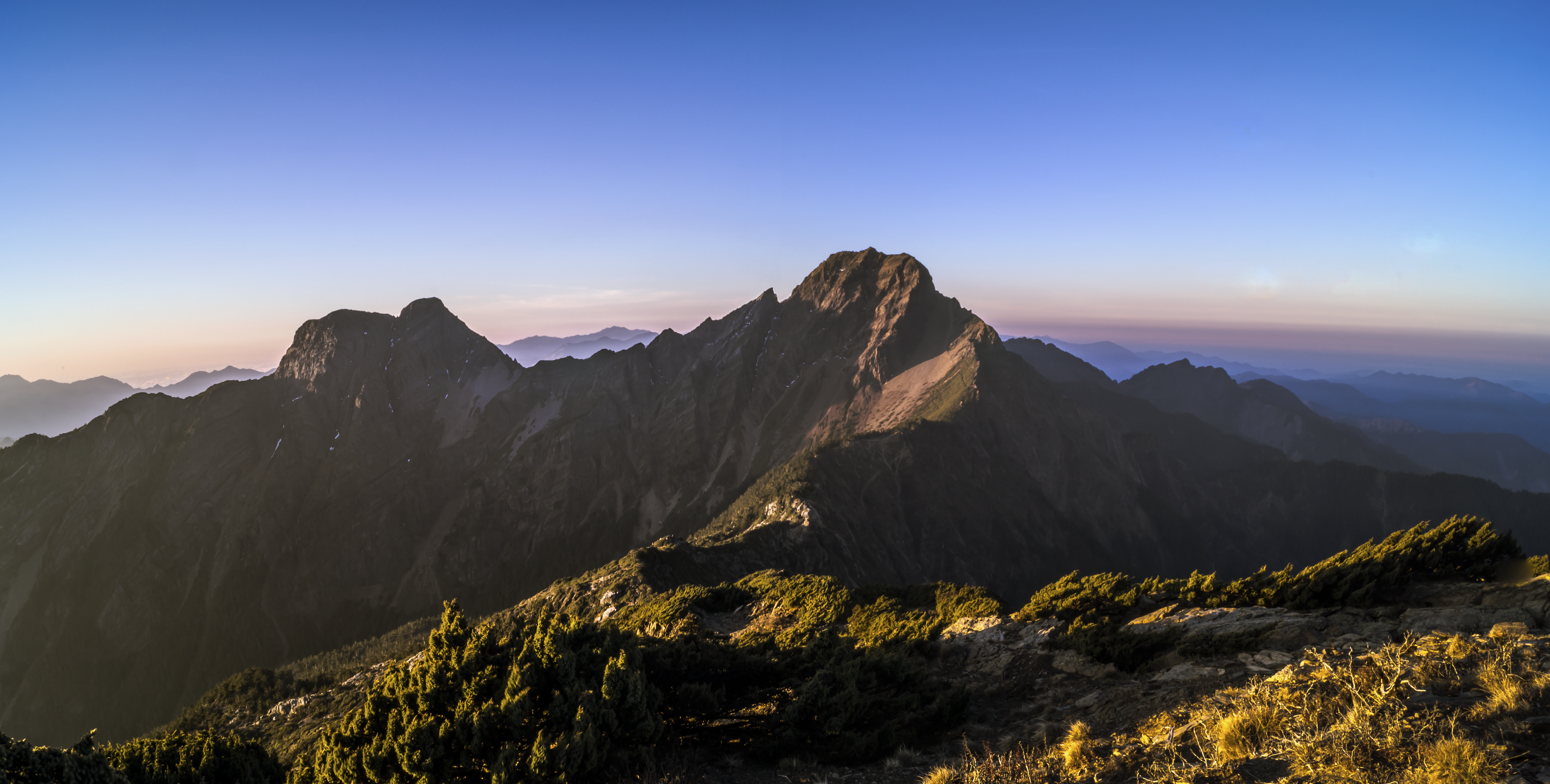 A touch of sun in the spring, for this Taiwan's main ridge dyed golden color, Yushan dabbata overjoyed.